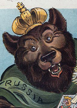 Cover of american humor magazine Puck at 20 January 1904